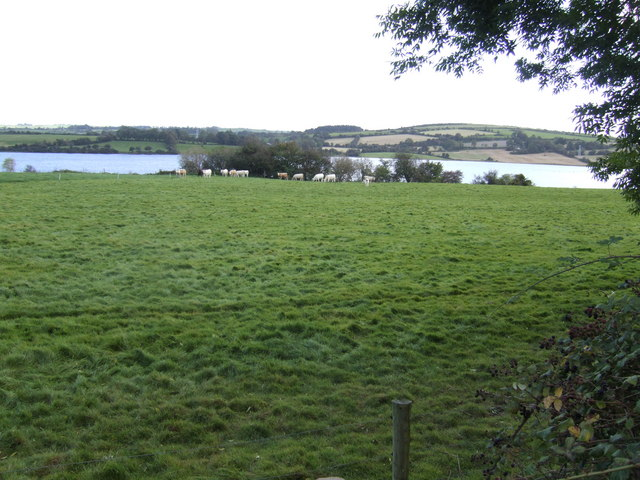 Dairy pasture by the River Lee. The river is expanded into a reservoir by the dam at Carrigadrohid.